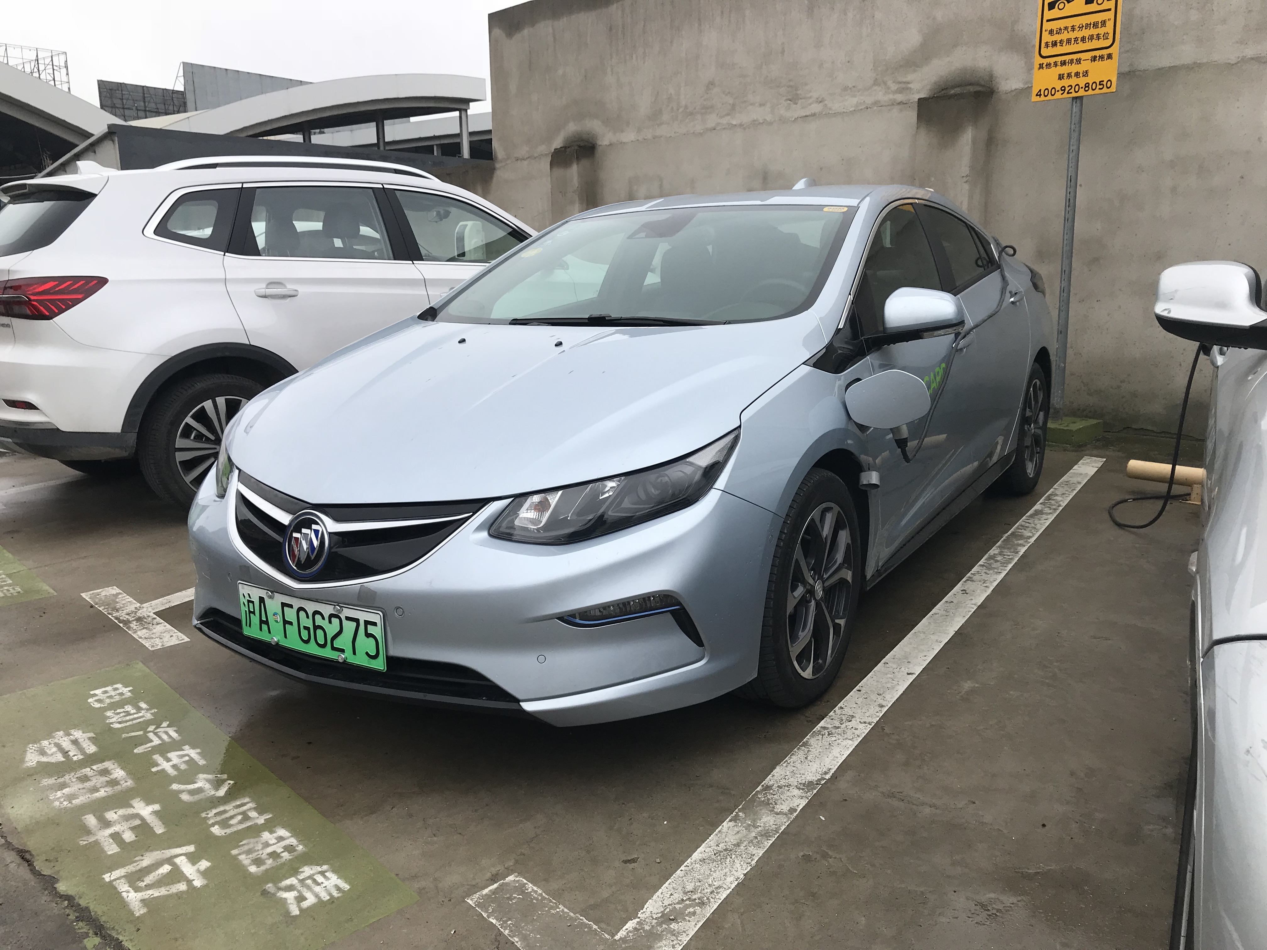 Buick Velite 5 charging.